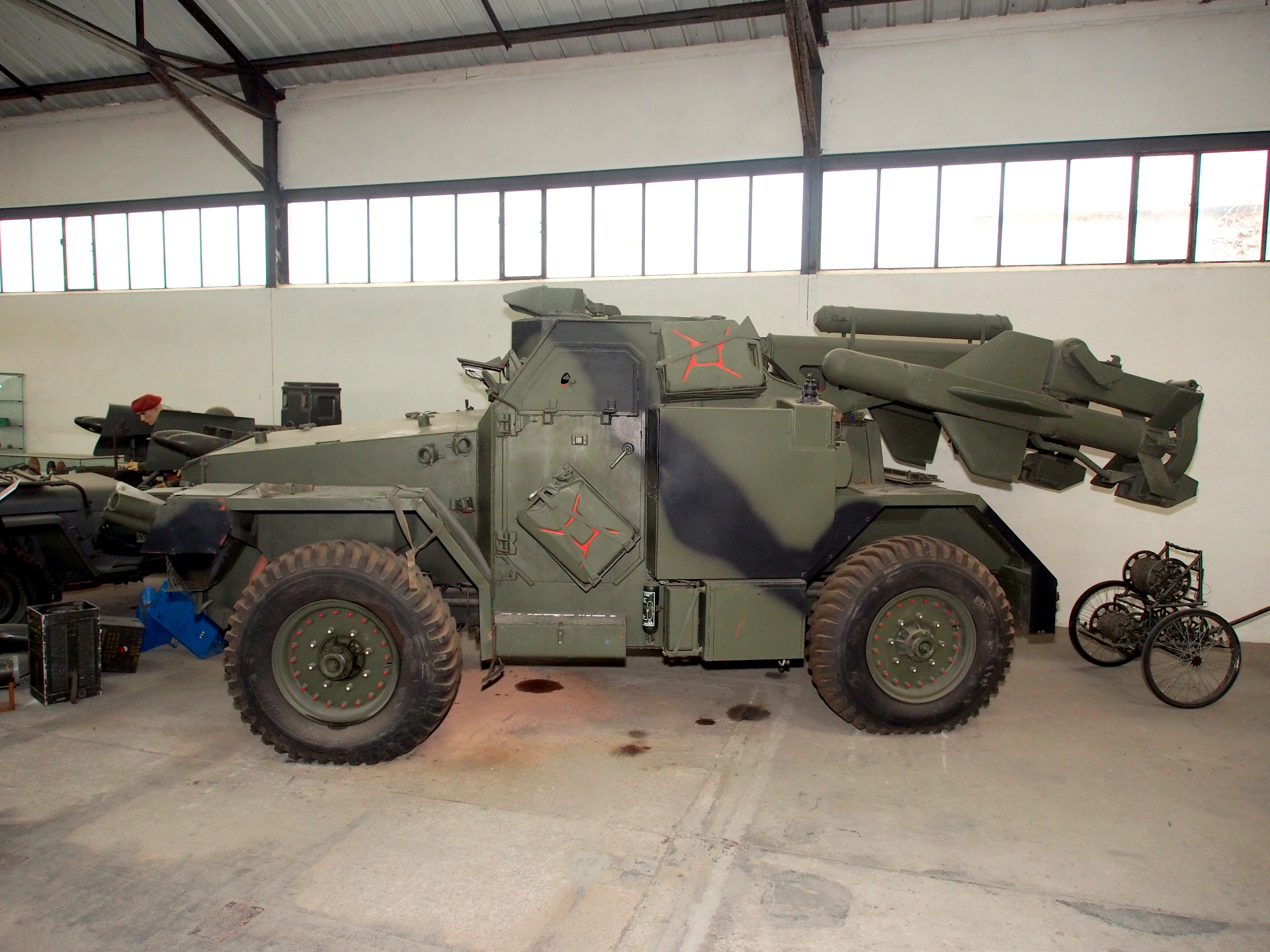 Photographed in the Musée des Blindés, France.